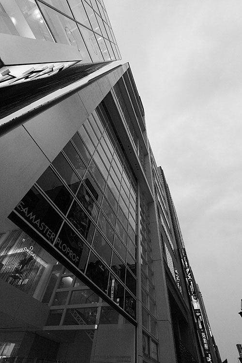 Nicolas G. Hayek CenterDesigner:Shigeru Ban Place:JP-Tokyo 104-8188, Chuo-ku,Tokyo-to,Japan Completion Year: 2007See: description by swatchgroup